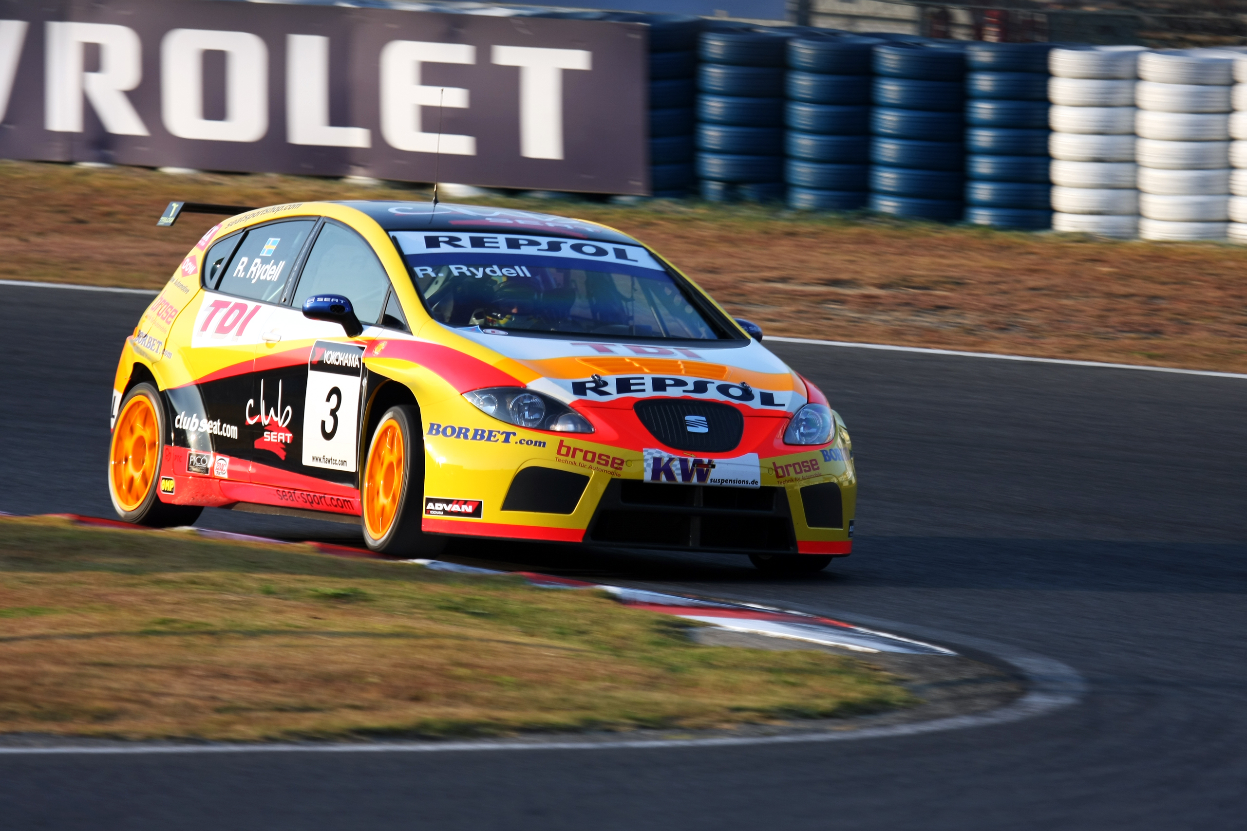 World Touring Car Championship 2009 Race of Japan: Rickard Rydell (SEAT Sport)